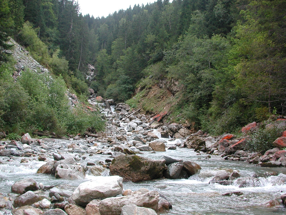 Stream, Saint-Gervais-les-Bains, Haute-Savoie, France